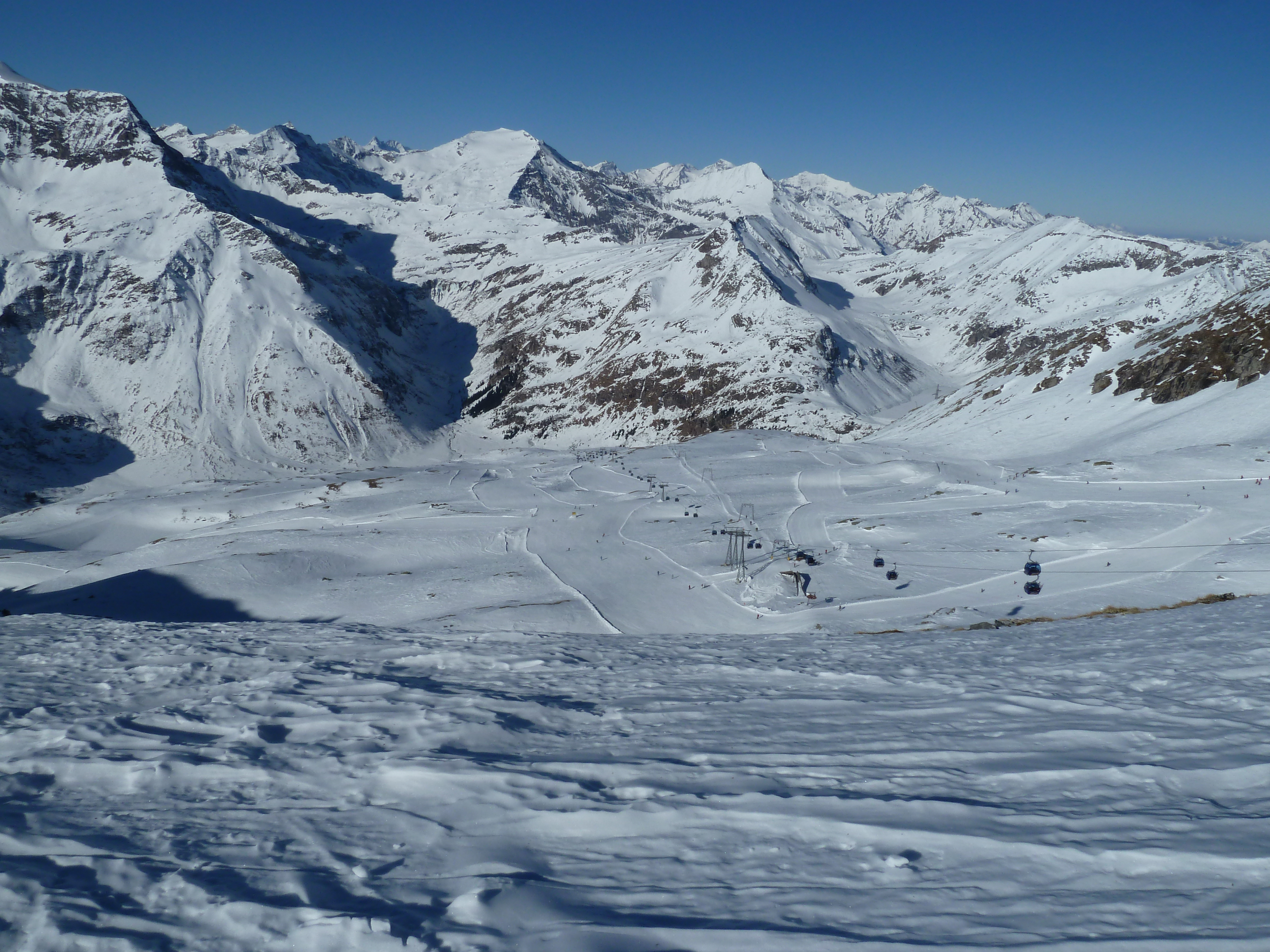 View from the Kreuzkogel in the skiing area Sportgastein over the skiing slopes and the mountains west of the Kreuzkogel. Sportgastein is an alpine skiing area in the Gastein valley in Salzburg (state). From the Nassfeld valley which is the name of the southern end of the Gastein valley the gondola lift Goldbergbahn leads in two sections up to the Kreuzkogel (2686 m), the starting point of several downhill skiing slopes. On clear days there is a spectacular sight over the Gastein valley and the surrounding mountains.